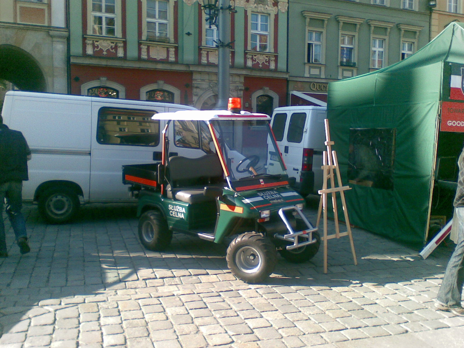 Melex - vehicle of Custom service in Poland.